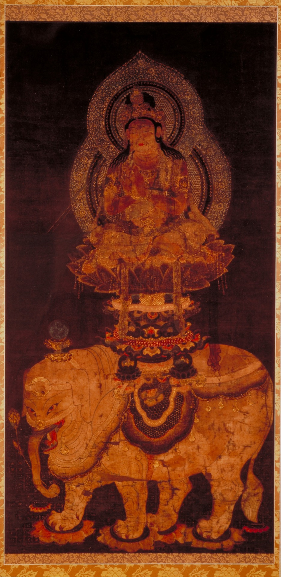 Fugen Bosatsu (Samantabhadra) (絹本著色普賢菩薩像, kenpon chakushoku fugen bosatsu zō). Hanging scroll. Color on silk. Located at Bujō-ji (豊乗寺), Chizu, Tottori, Japan. The scroll has been designated as National Treasure of Japan in the category paintings.